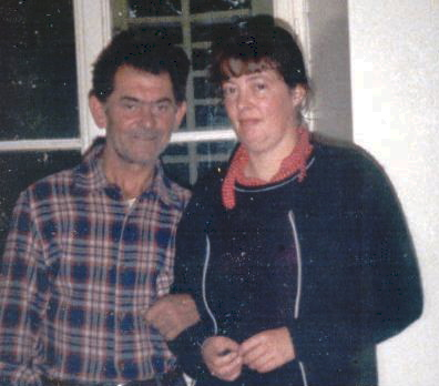 Dunya Breur (at right) at Democratic Psychiatry conference Triëste (Italy), september 1977.